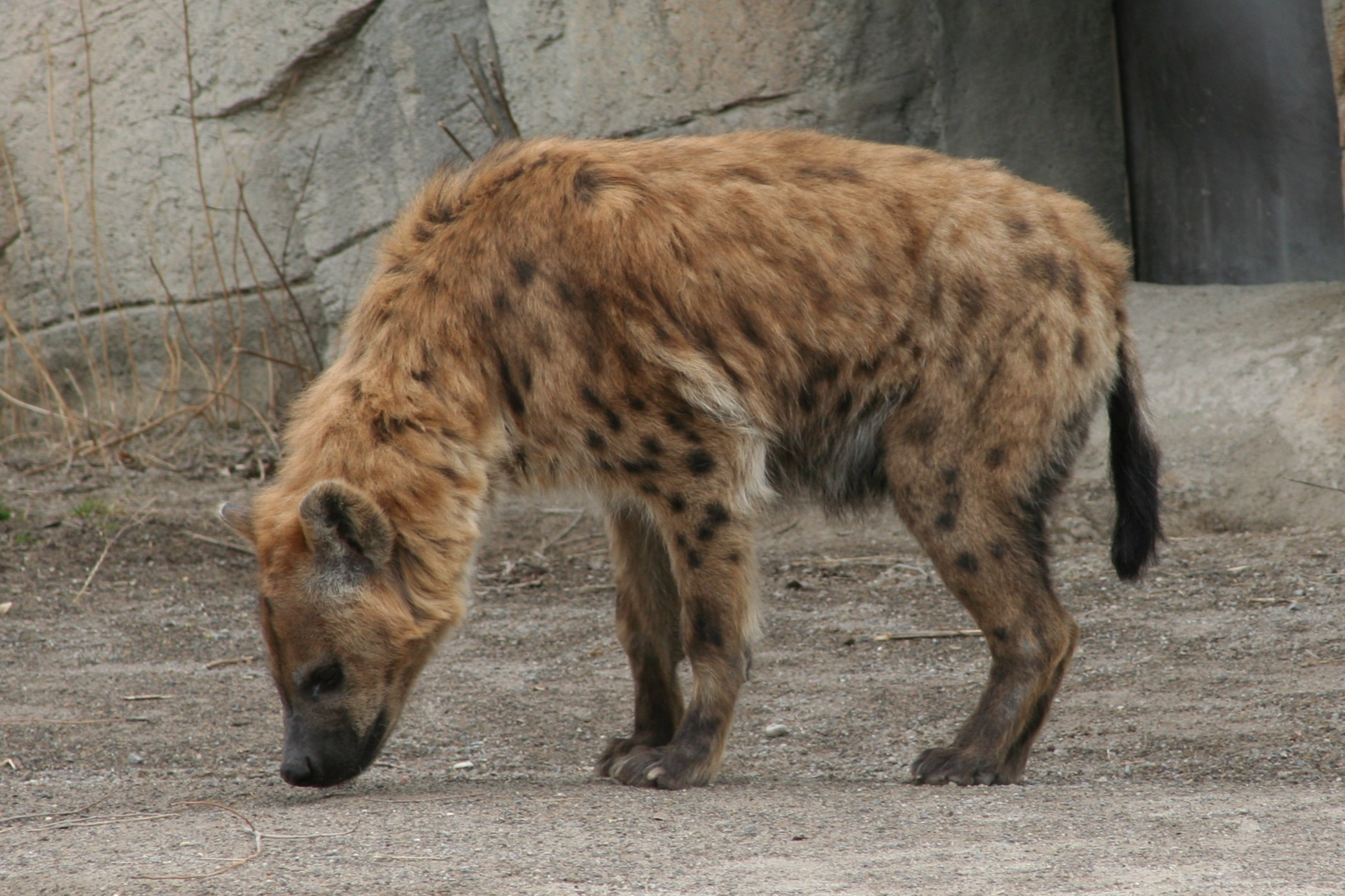 Spotted Hyena (Crocuta crocuta) at the Buffalo Zoo